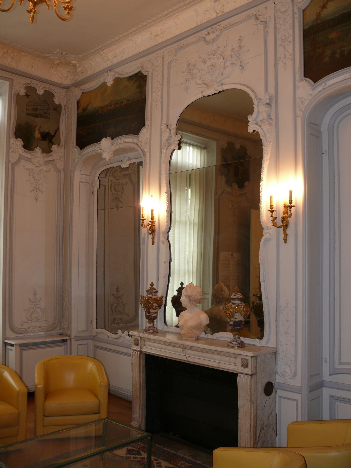 The teacher's room of lycée Fénelon de Paris (France).